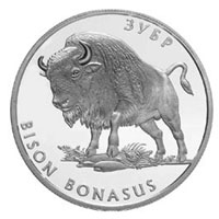 Coin of Ukraine